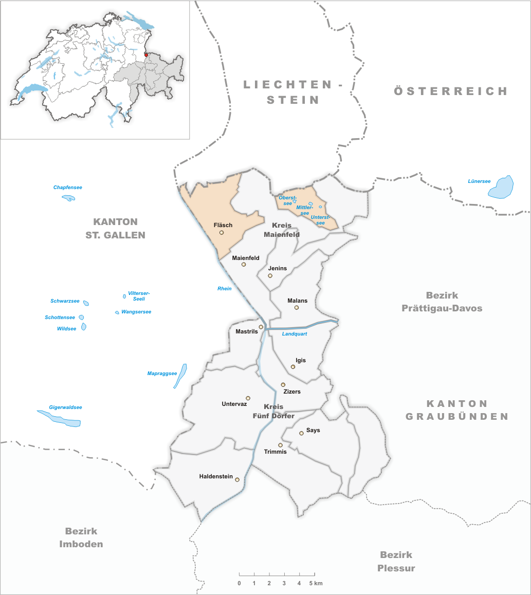 Municipality Fläsch